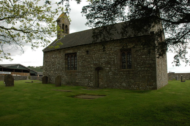 Kemeys Commander Church The small All Saints church, Kemeys Commander.